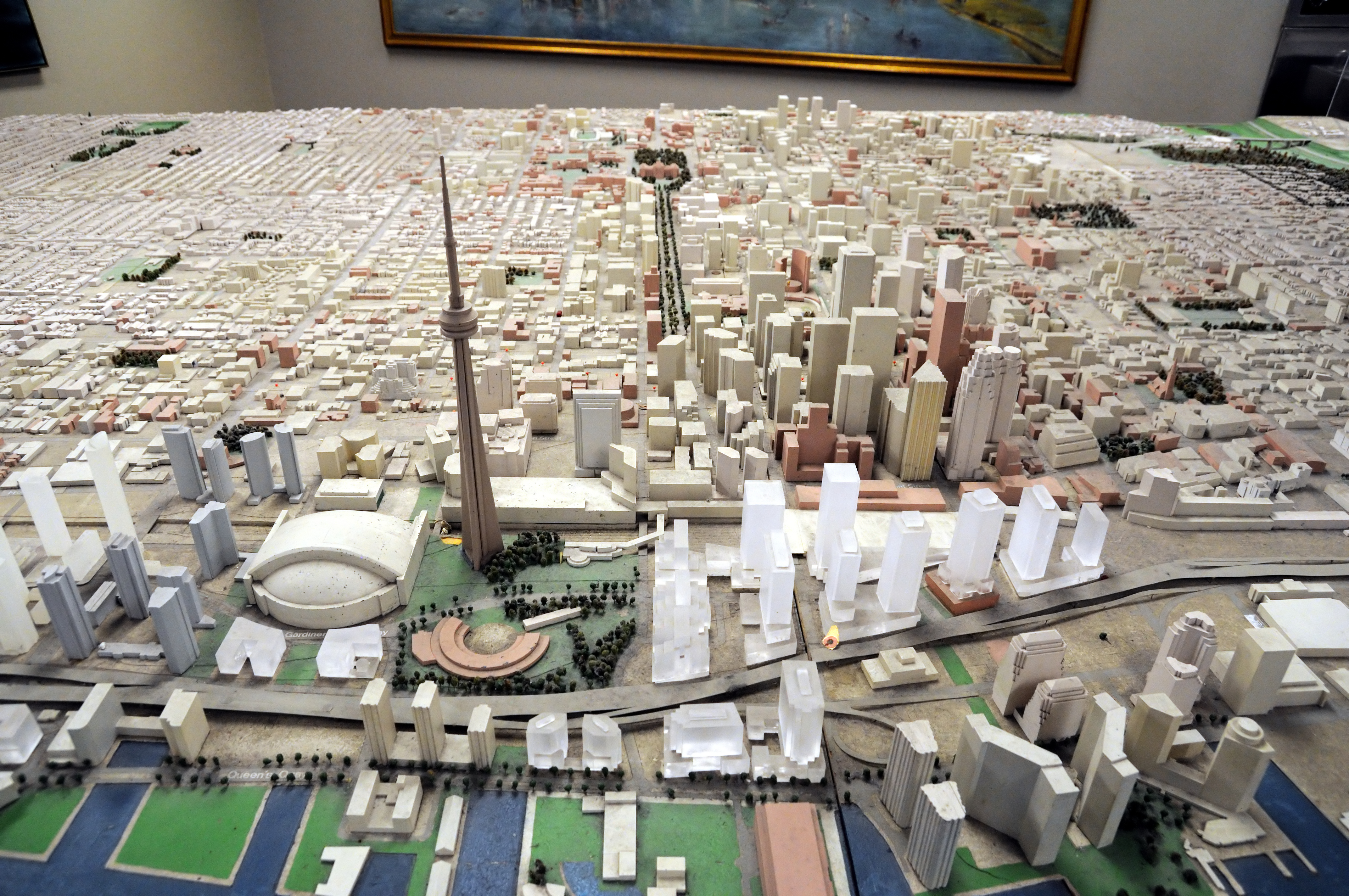 Toronto: New City Hall